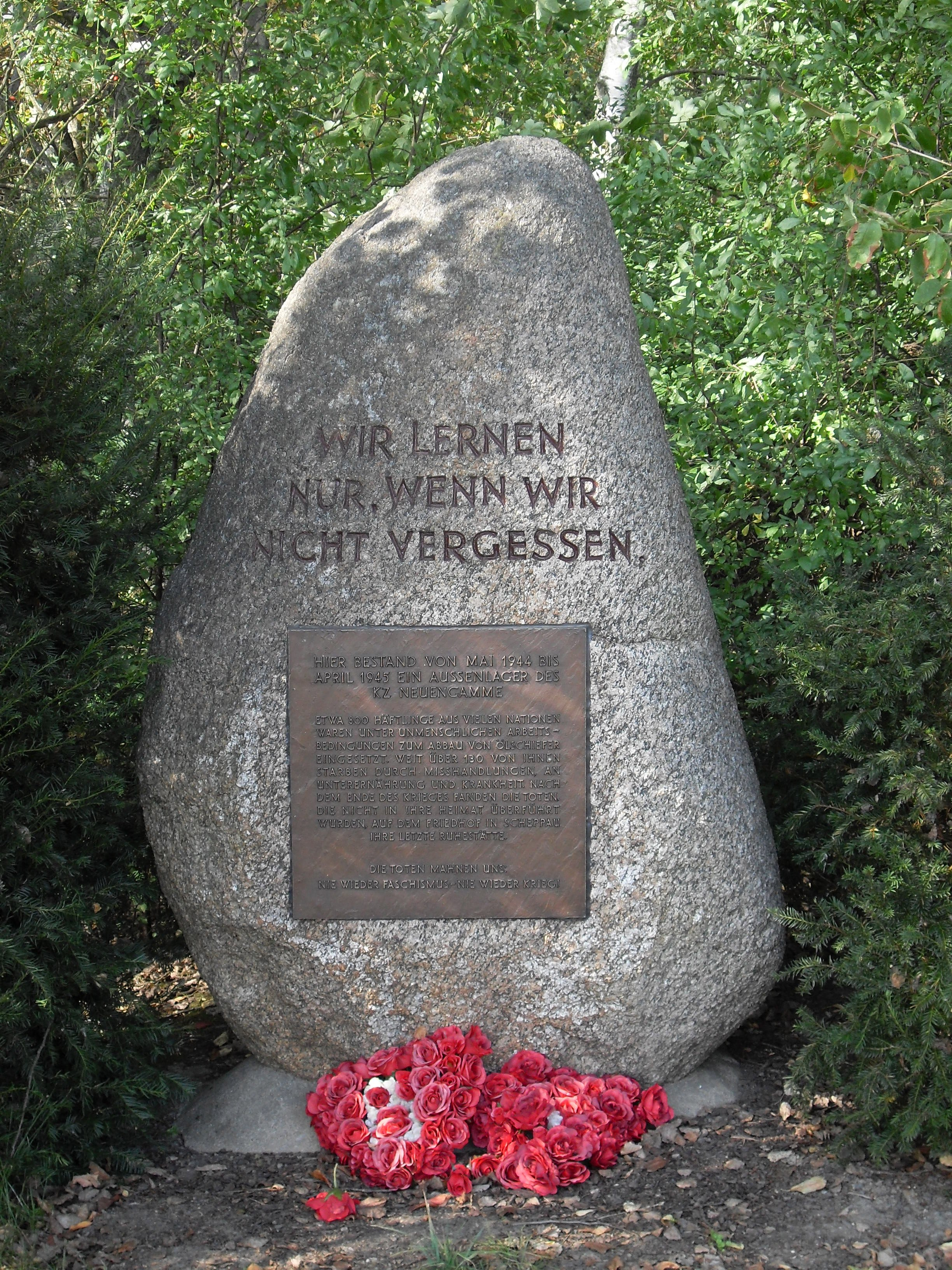 stone monument at the site of the concentration camp near Schandelah, Germany